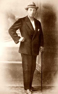 Renzo Novatore, italian individualist anarchist theorist